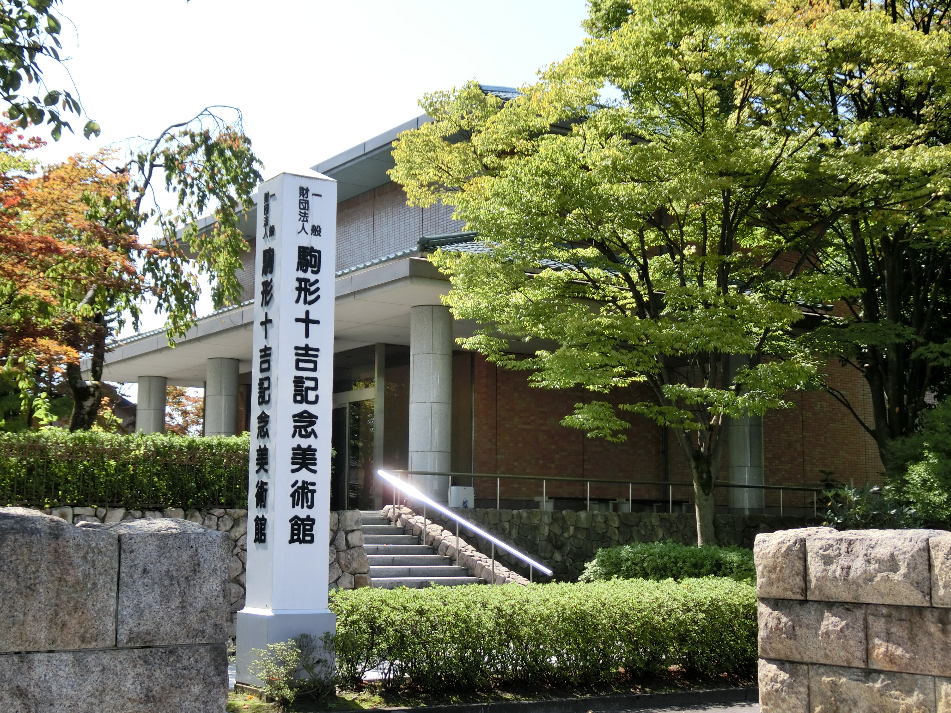 Komagata Jukichi Museum of Art